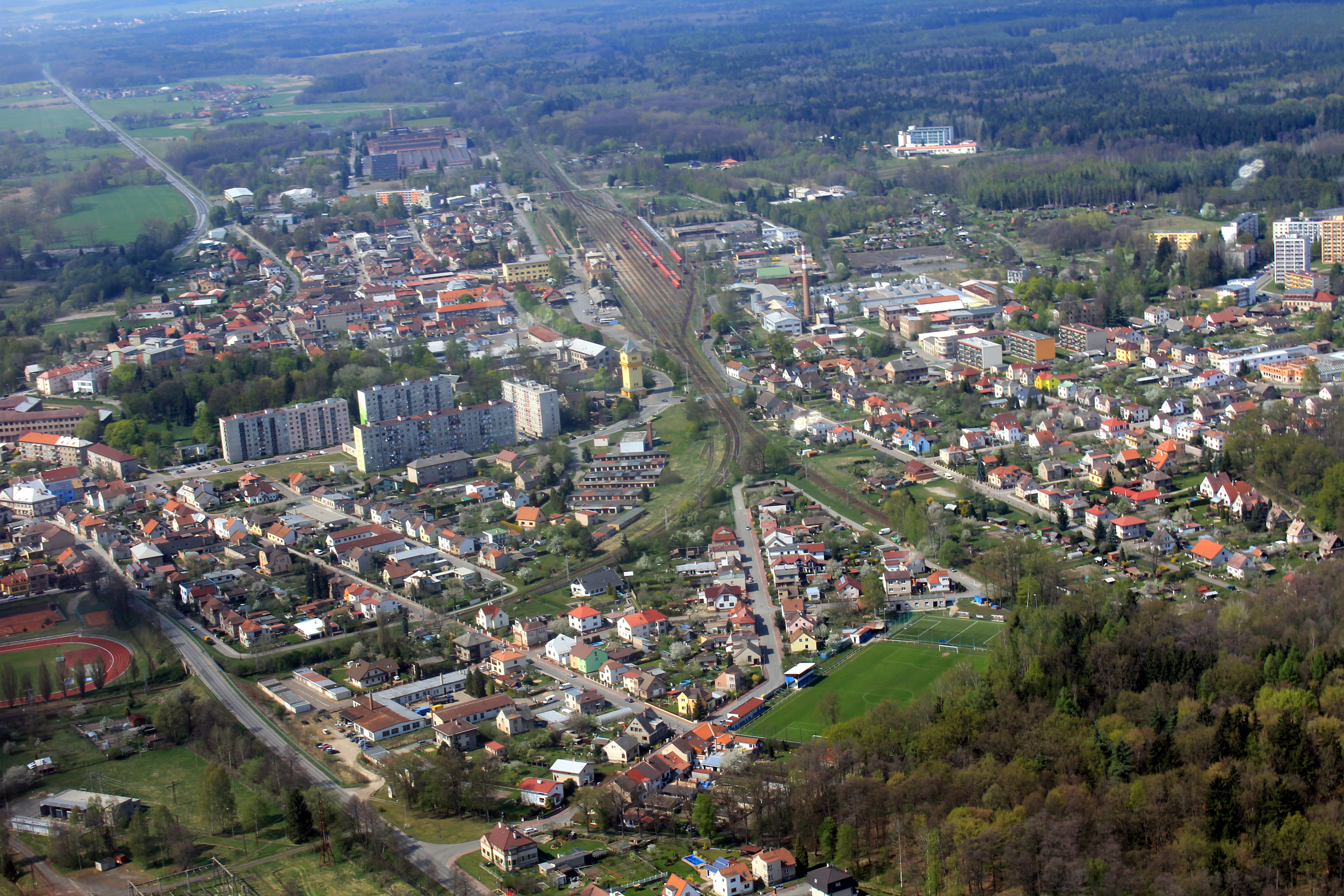 Town Týniště nad Orlicí from air, eastern Bohemia, Czech Republic